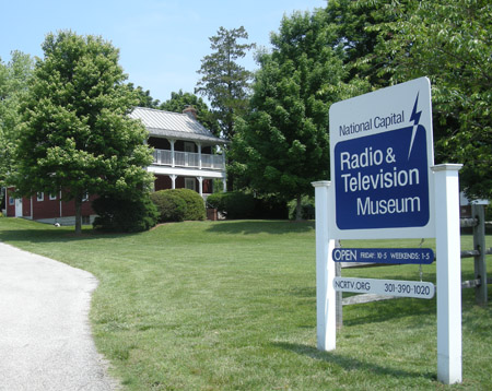 National Capitol Radio & Television Museum